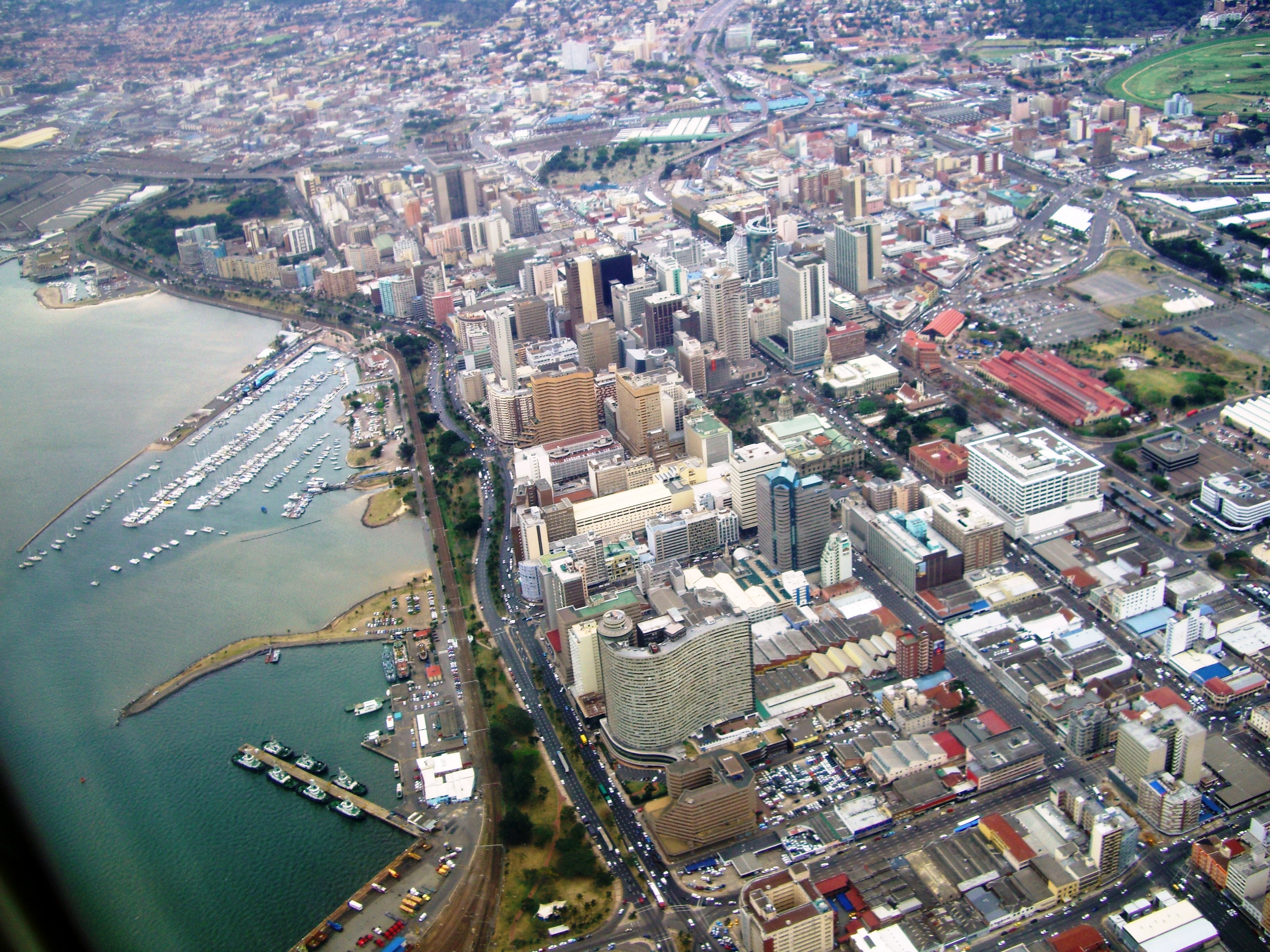 The South African city of Durban from above